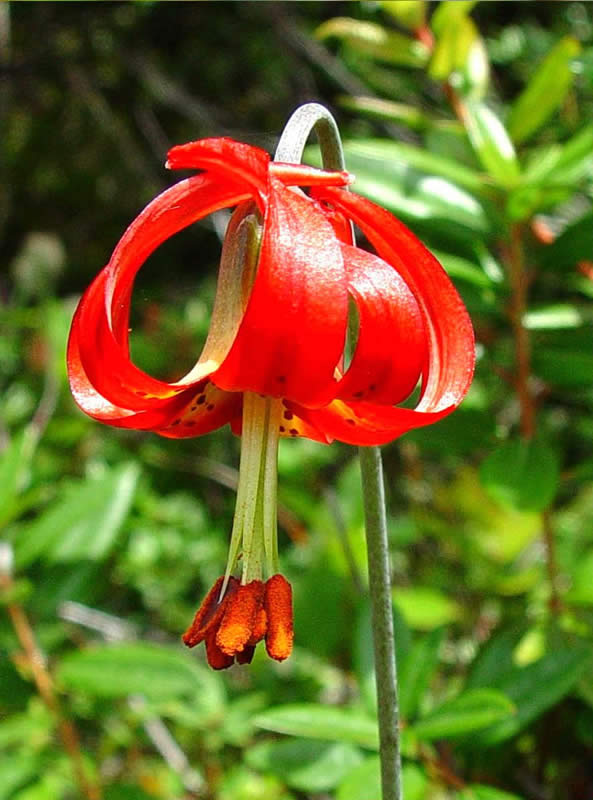 Lilium occidentale. US Forest Service photo, no copyright.